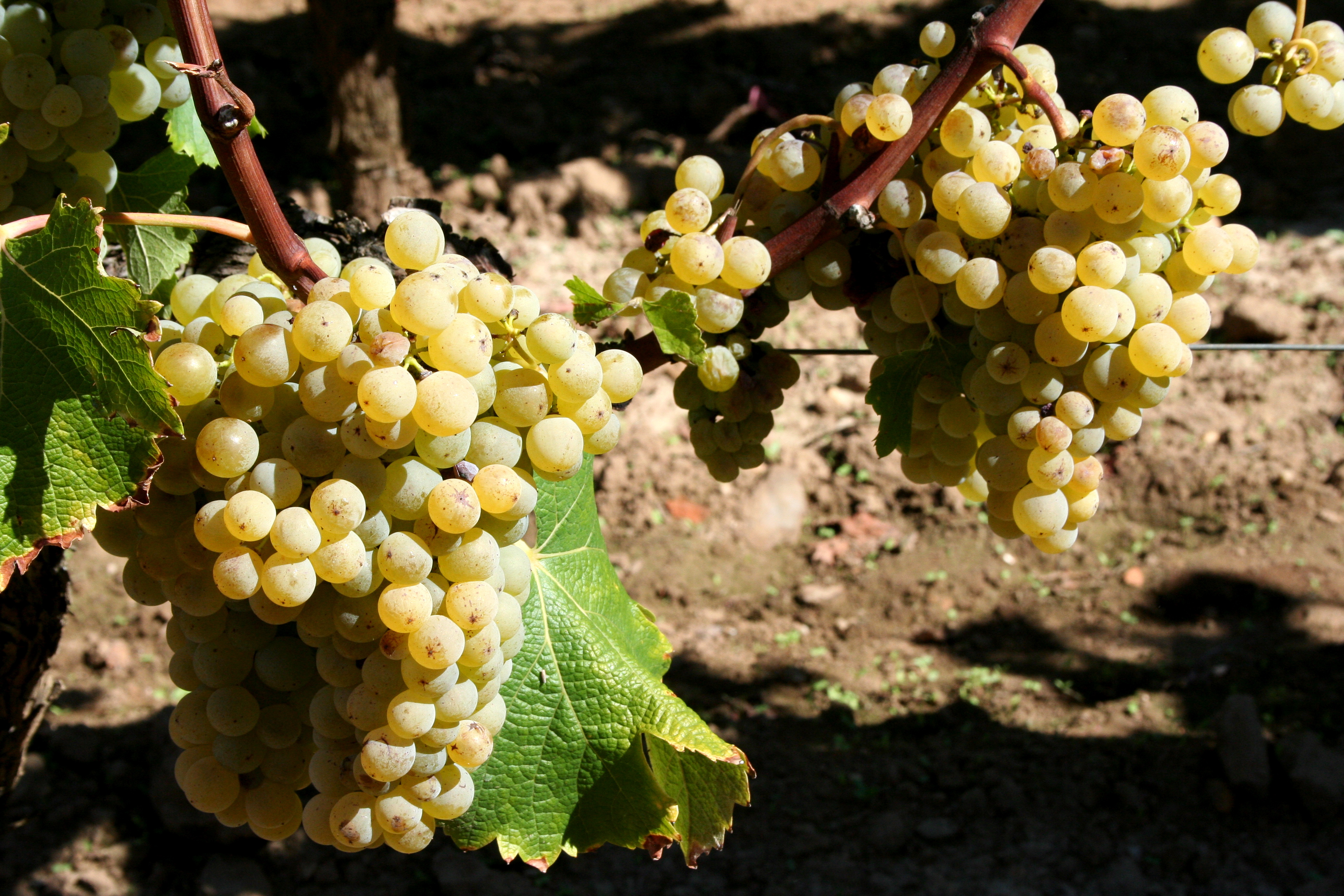 Semillon grapes growing in the French wine region of Bordeaux